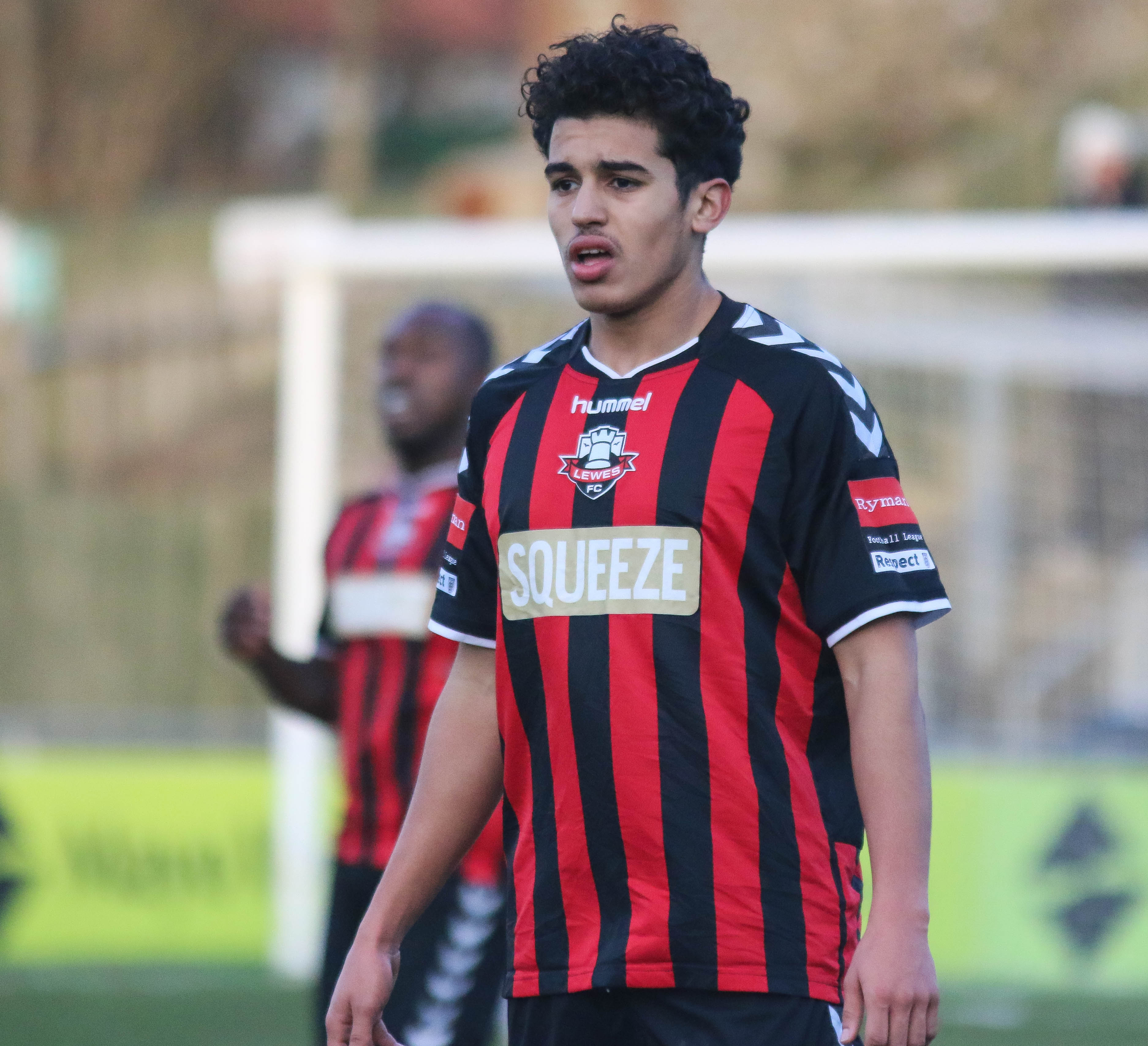 Yasin Ben El-Mhanni playing for Lewes against Kingstonian in November 2015.